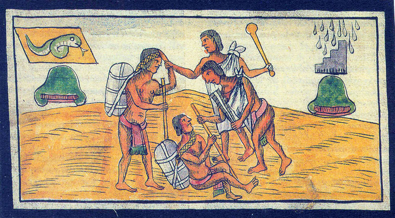 The ancient mexican weapon: Quauhololli.